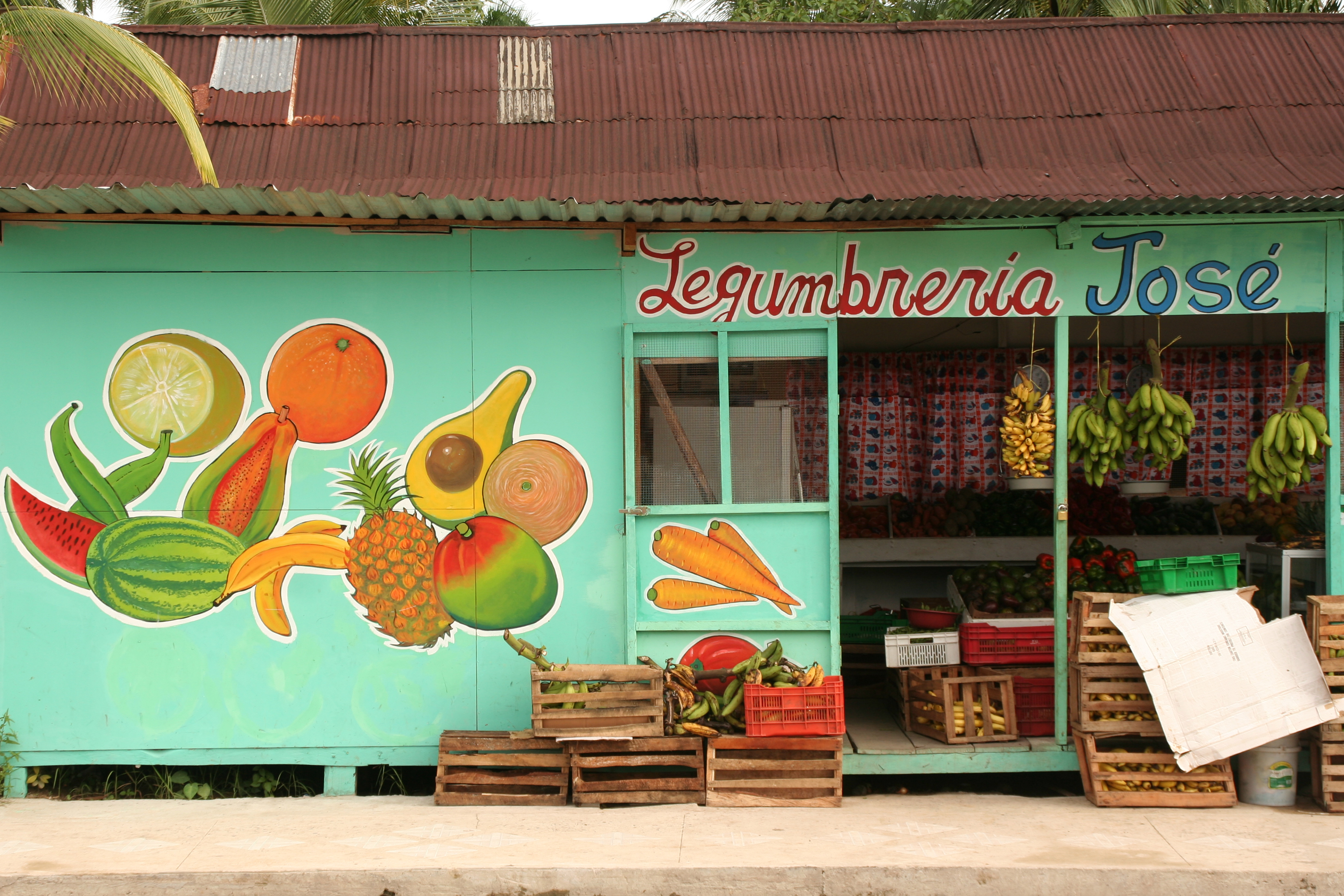 Greengrocer at Bocas del Toro, Panama, called "Legumbreria José"